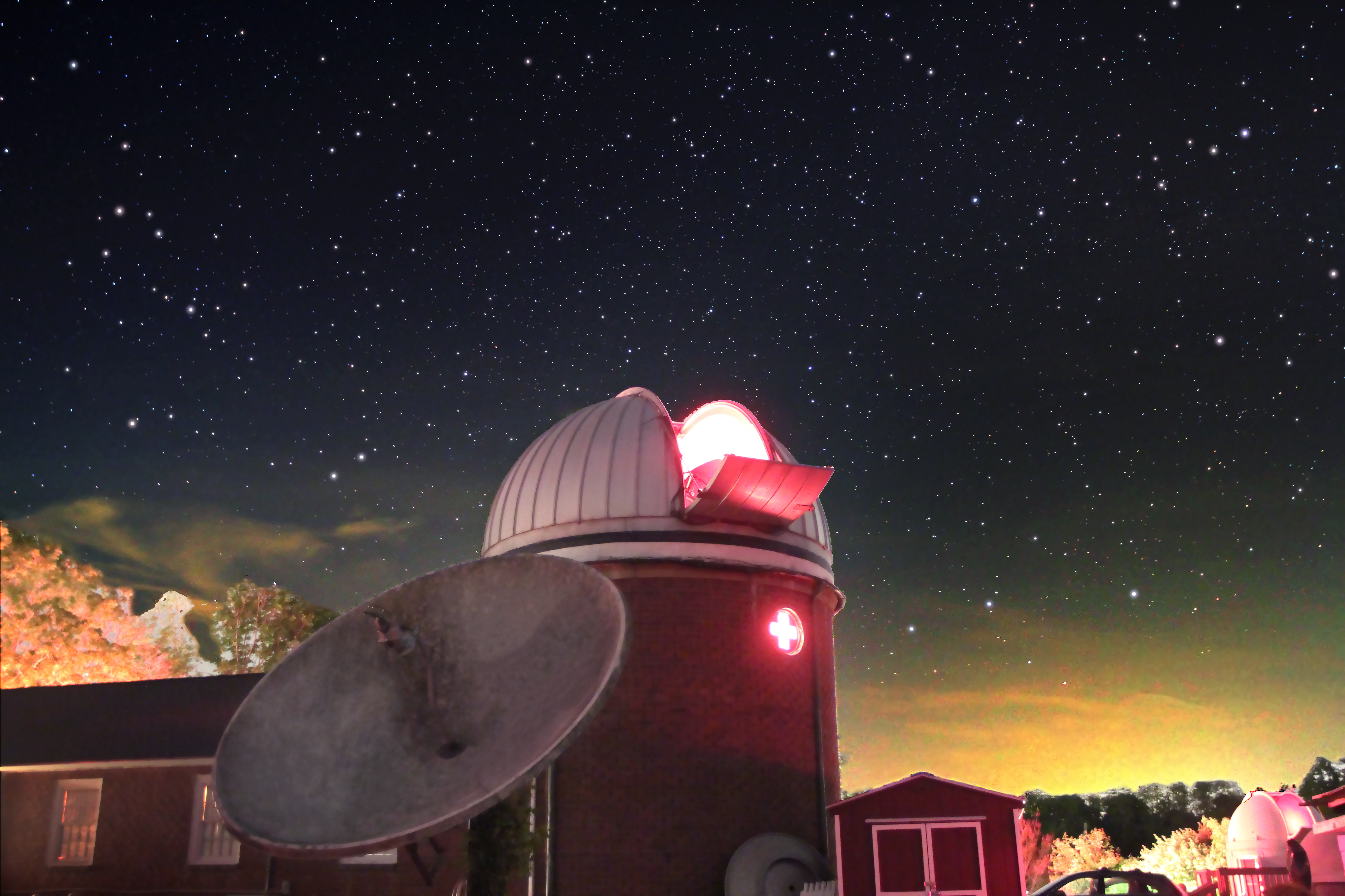 Custer Astronomical Observatory, Southold, New York, USA. Night Sky, Dome and Radio Telescope.